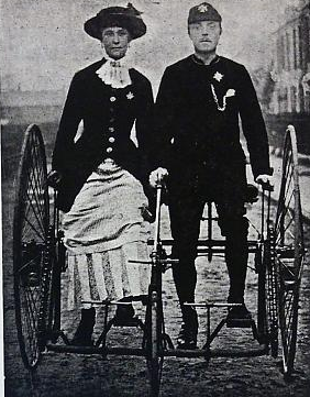 Jeanie Welford and WD Welford in the 1880s